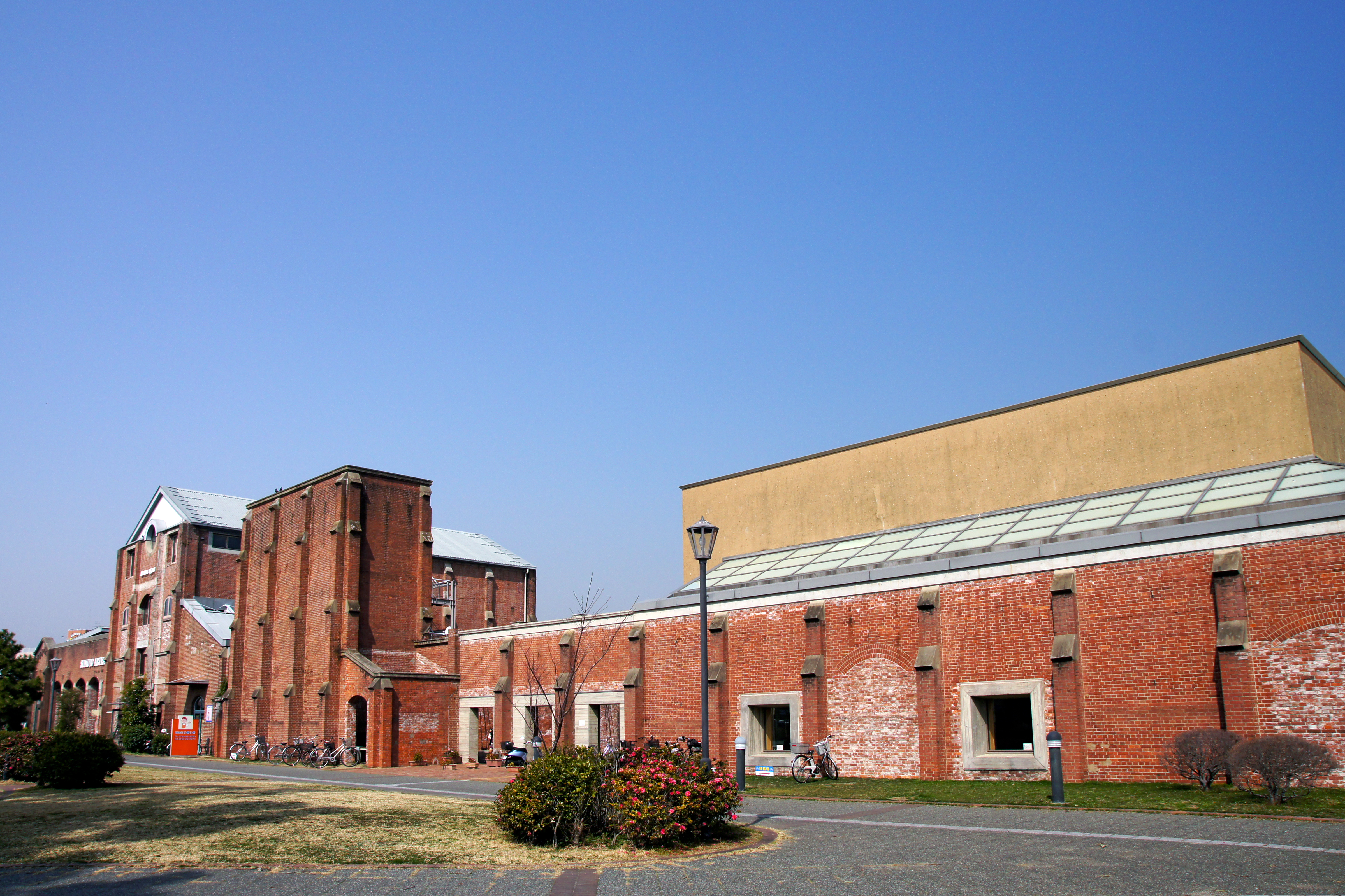 Sumoto Library in Sumoto, Hyogo prefecture, Japan.